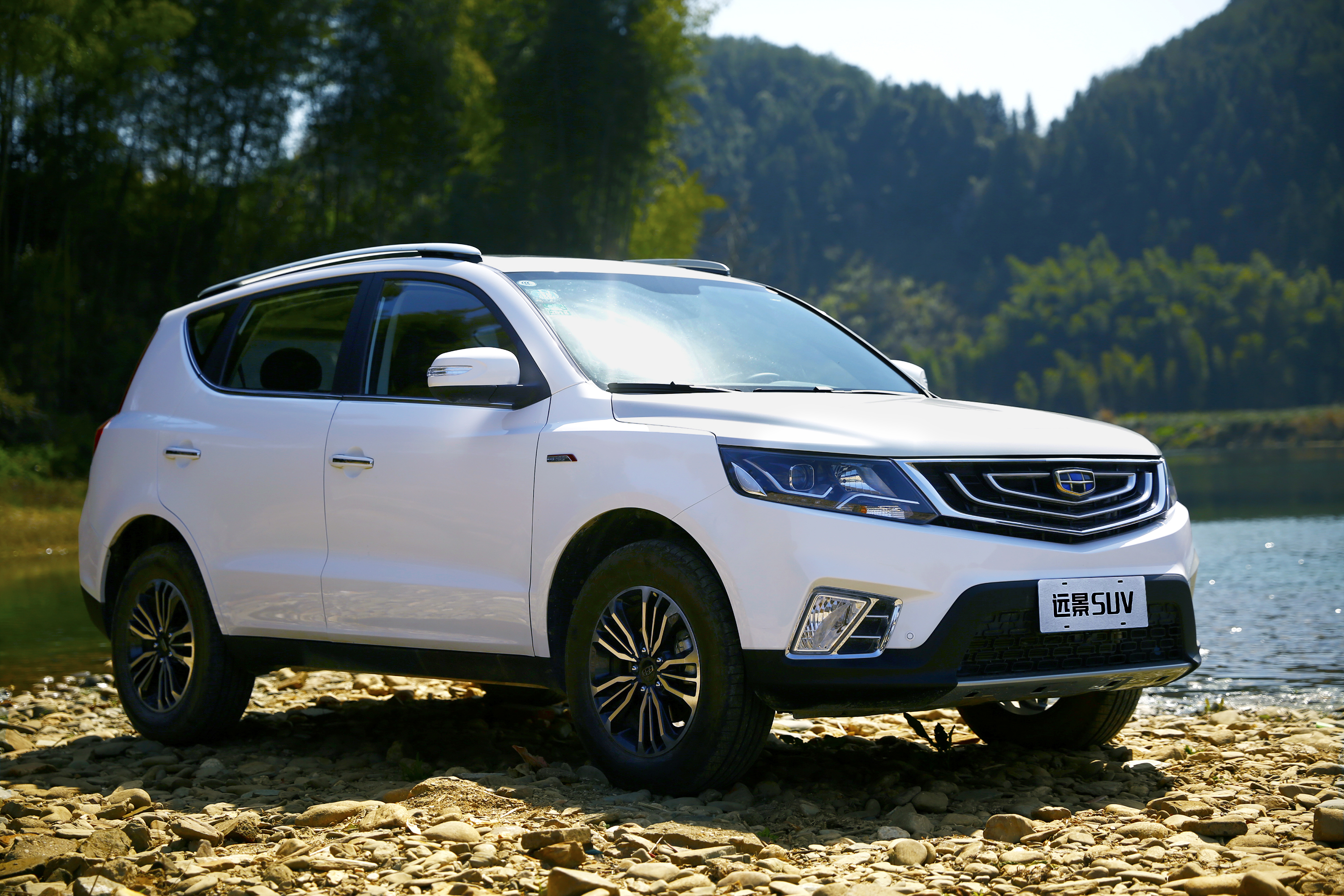 A Geely 2.5 SUV - 'Vision'